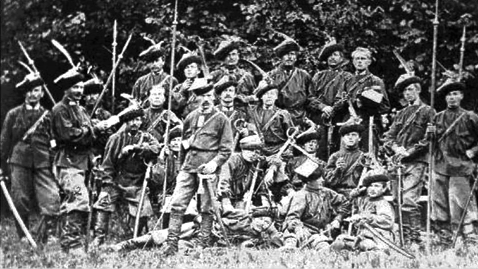 Polish January inurgents of Ignacy Drewnowski 1863